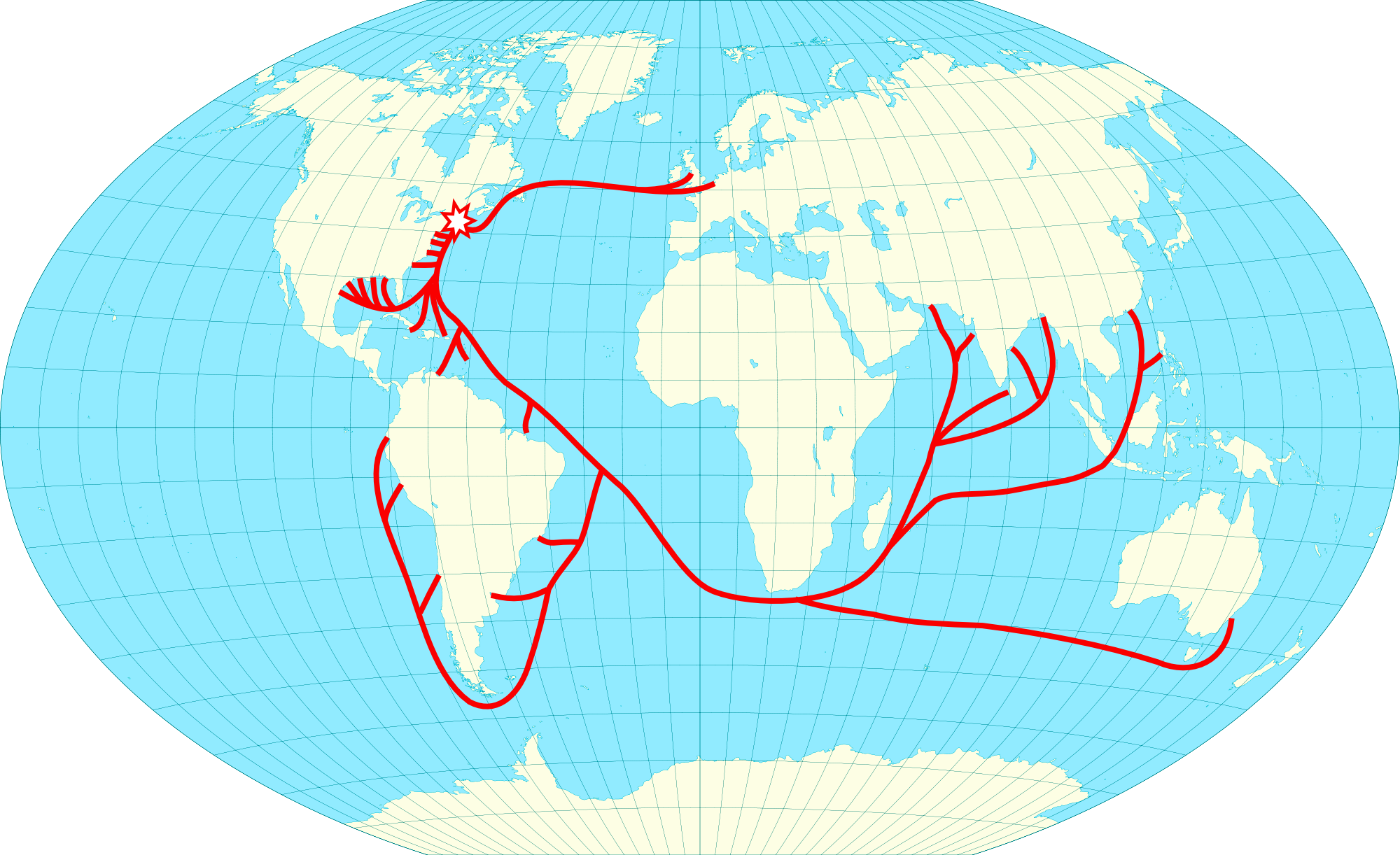 Map of the world in a Winkel tripel projection centered on the Prime Meridian. Scale : 1:5,000,000